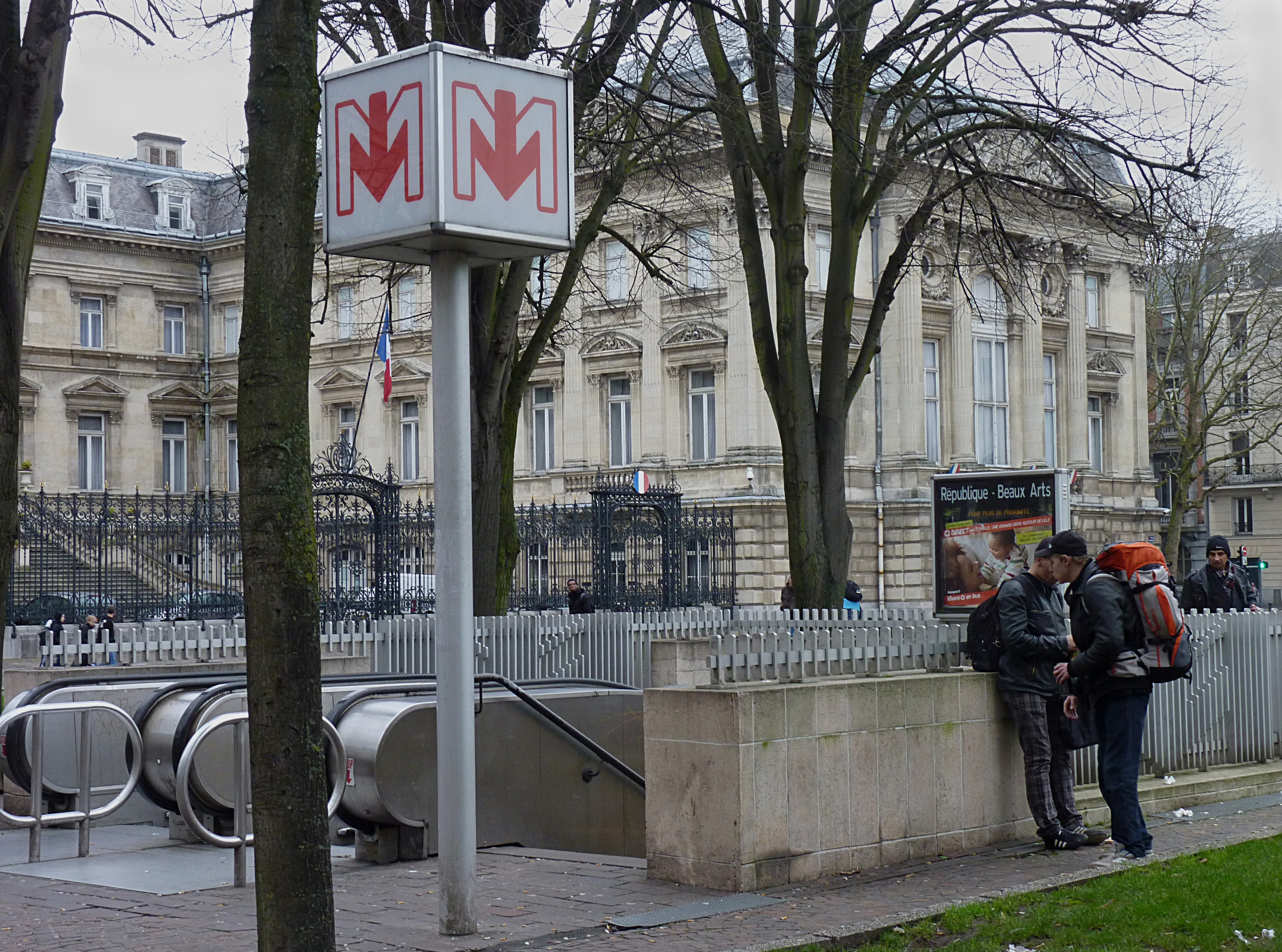 Subway station "République - Beaux Arts" in Lille (Nord), France. On the background, the prefecture.